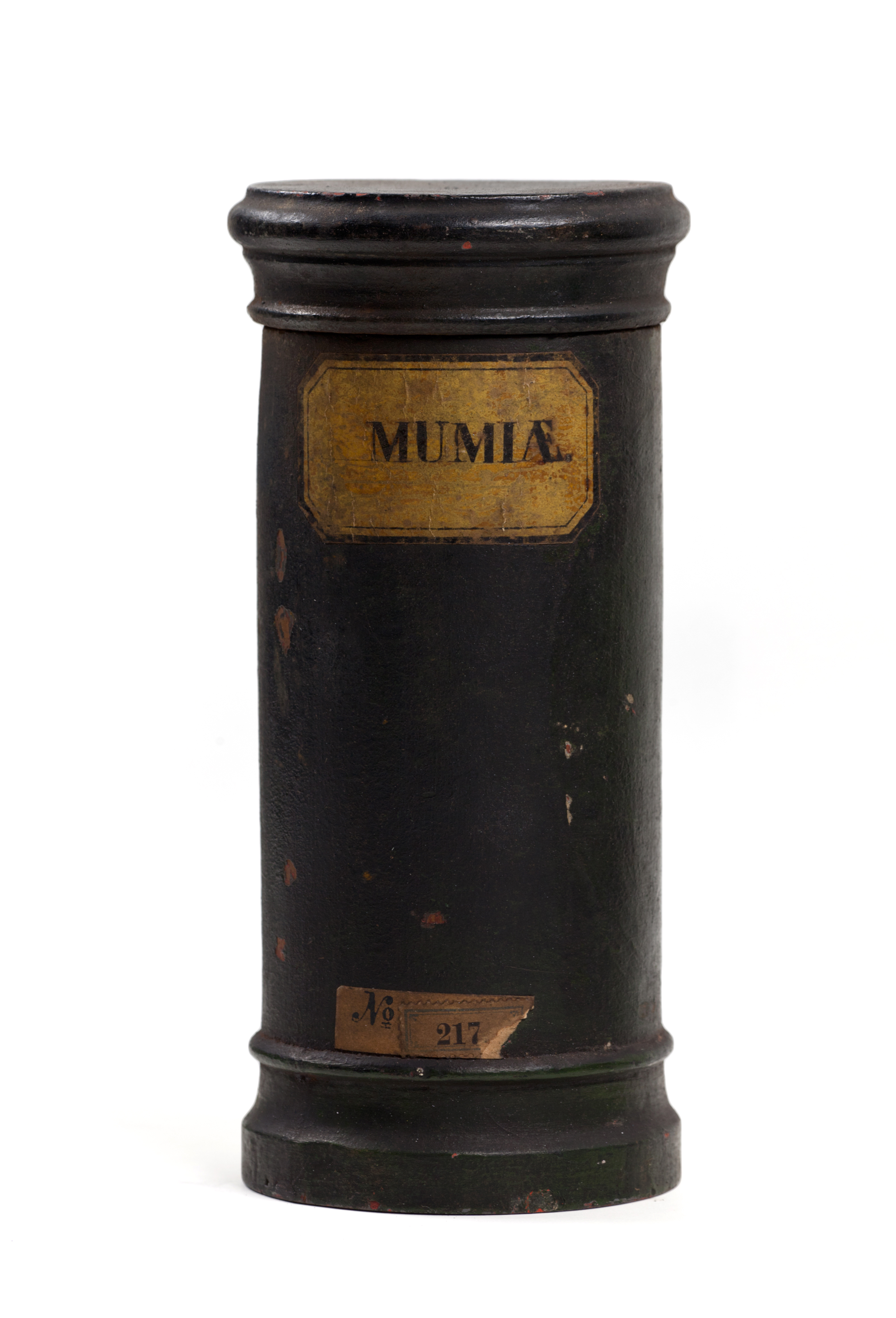 Apothekary vessel with inscription "MUMIÆ" and inventary number "No 217". The object is a part of the pharmacists collectioin of Museums für Hamburgische Geschichte.